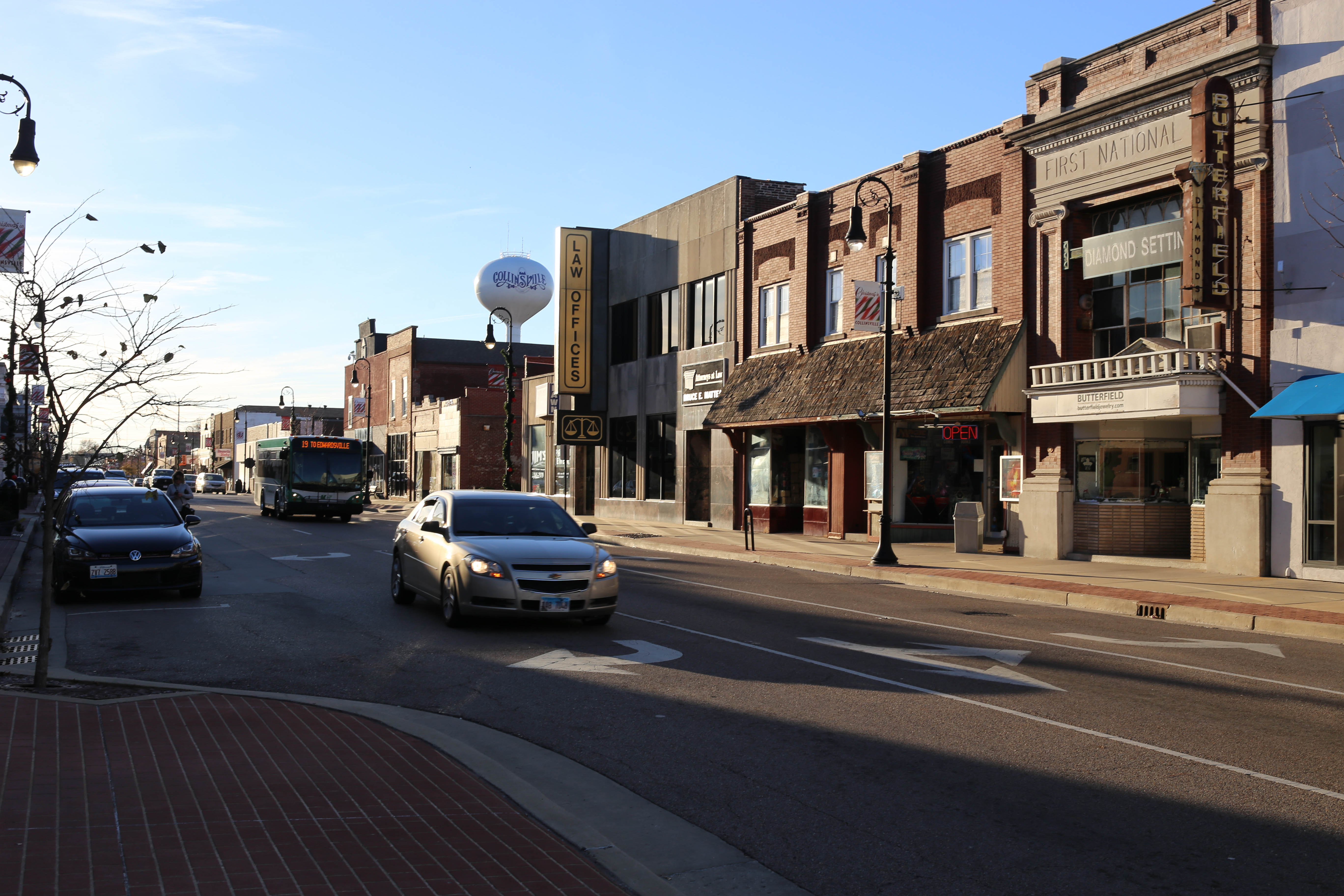 Collinsville Main Street